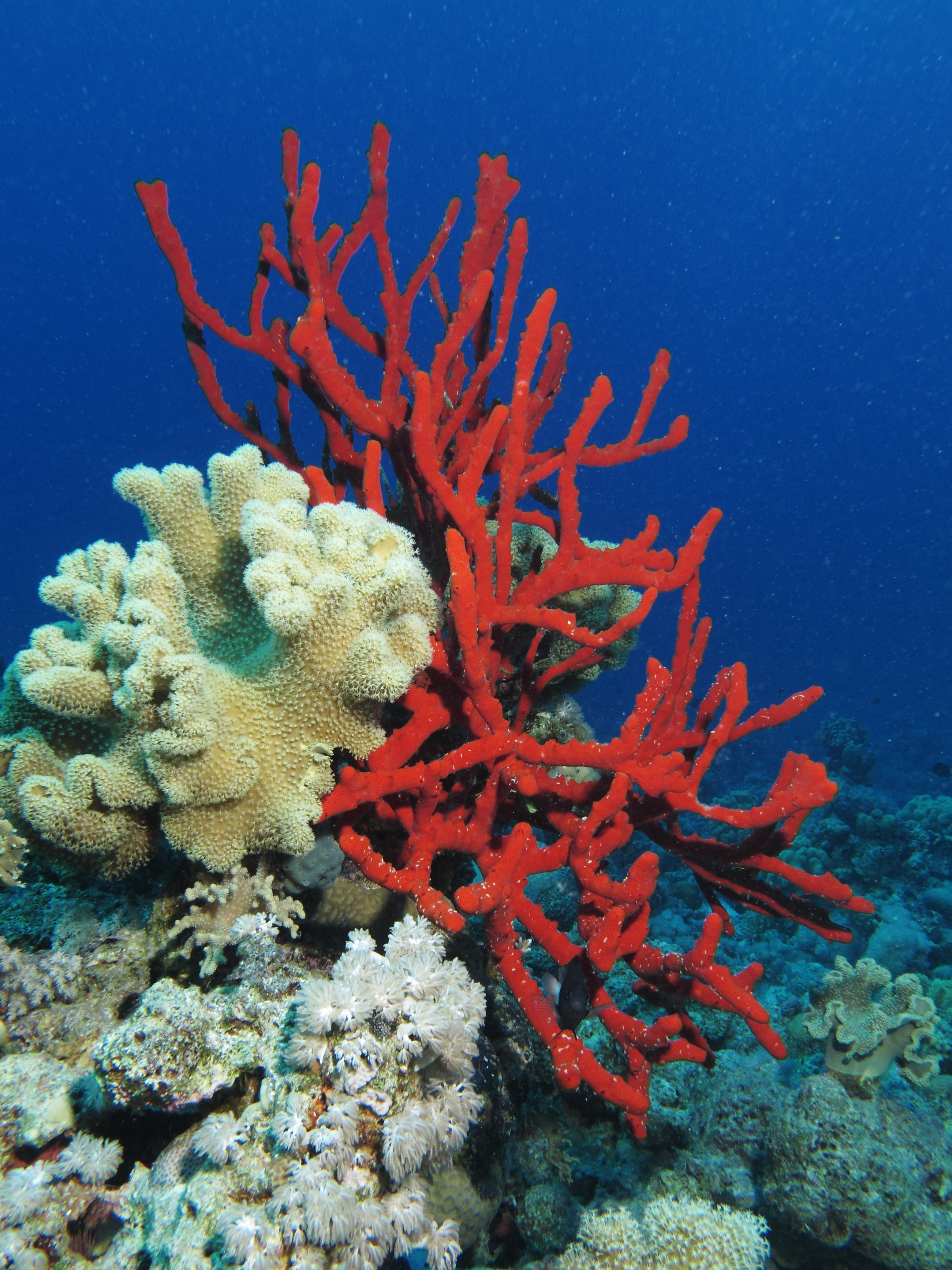 Toxic Negombata magnifica sponge at Shaab el Erg reef (Red Sea, Egypt)